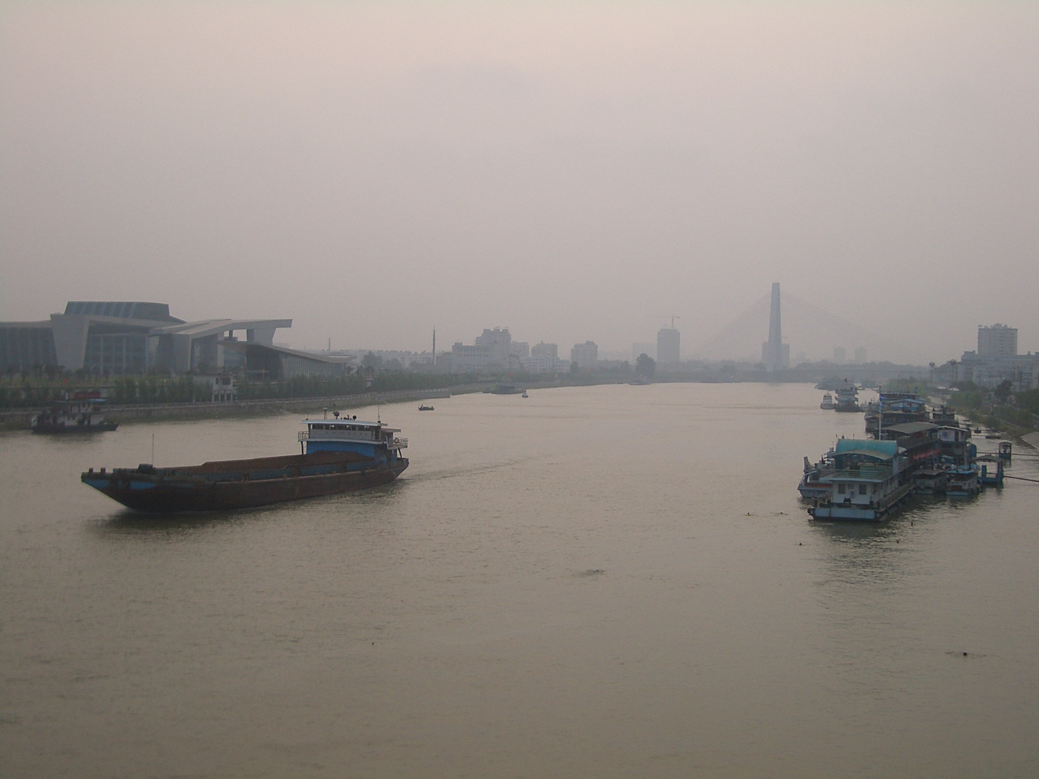 The Han River (Hanjiang, or Hanshui) in Wuhan